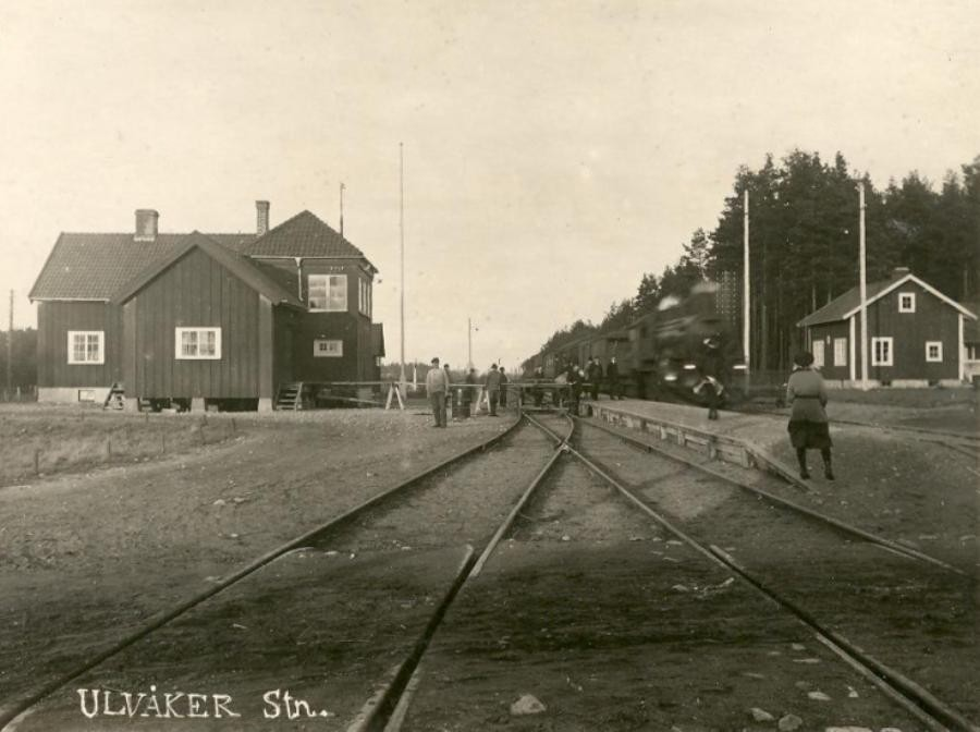 Railway station in Ulvåker. Photo taken by unknown person around 1920.